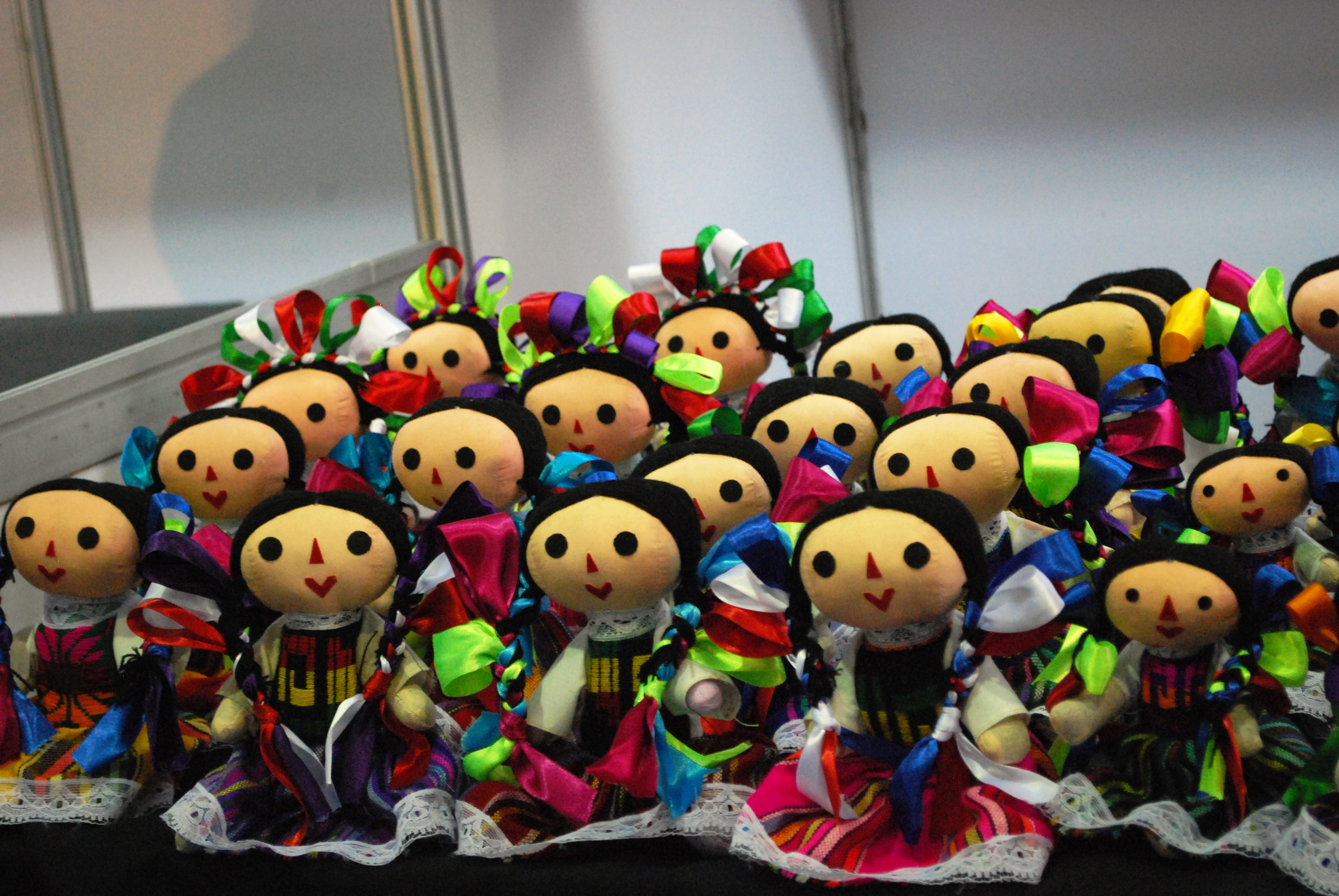 Traditional Oaxacan rag dolls on display at the 2010 FONART exhibition in Mexico City